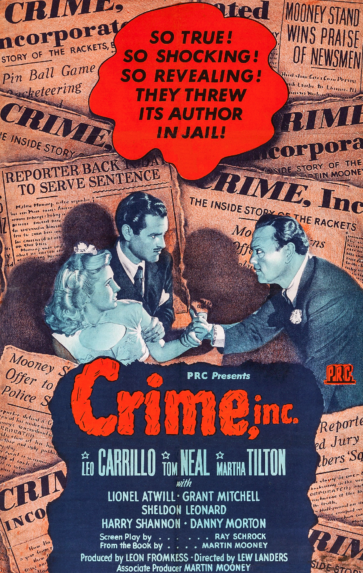 Poster for the 1945 film Crime, Inc.. The item has no copyright markings on it as can be seen in the links above and uncropped copy. At bottom right is Made in USA.